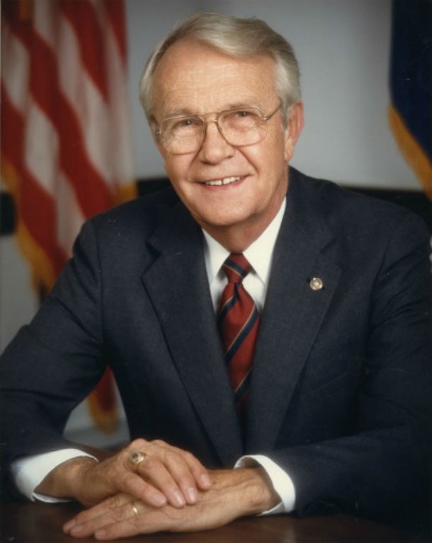 U.S. Senator Wendell Ford of Kentucky